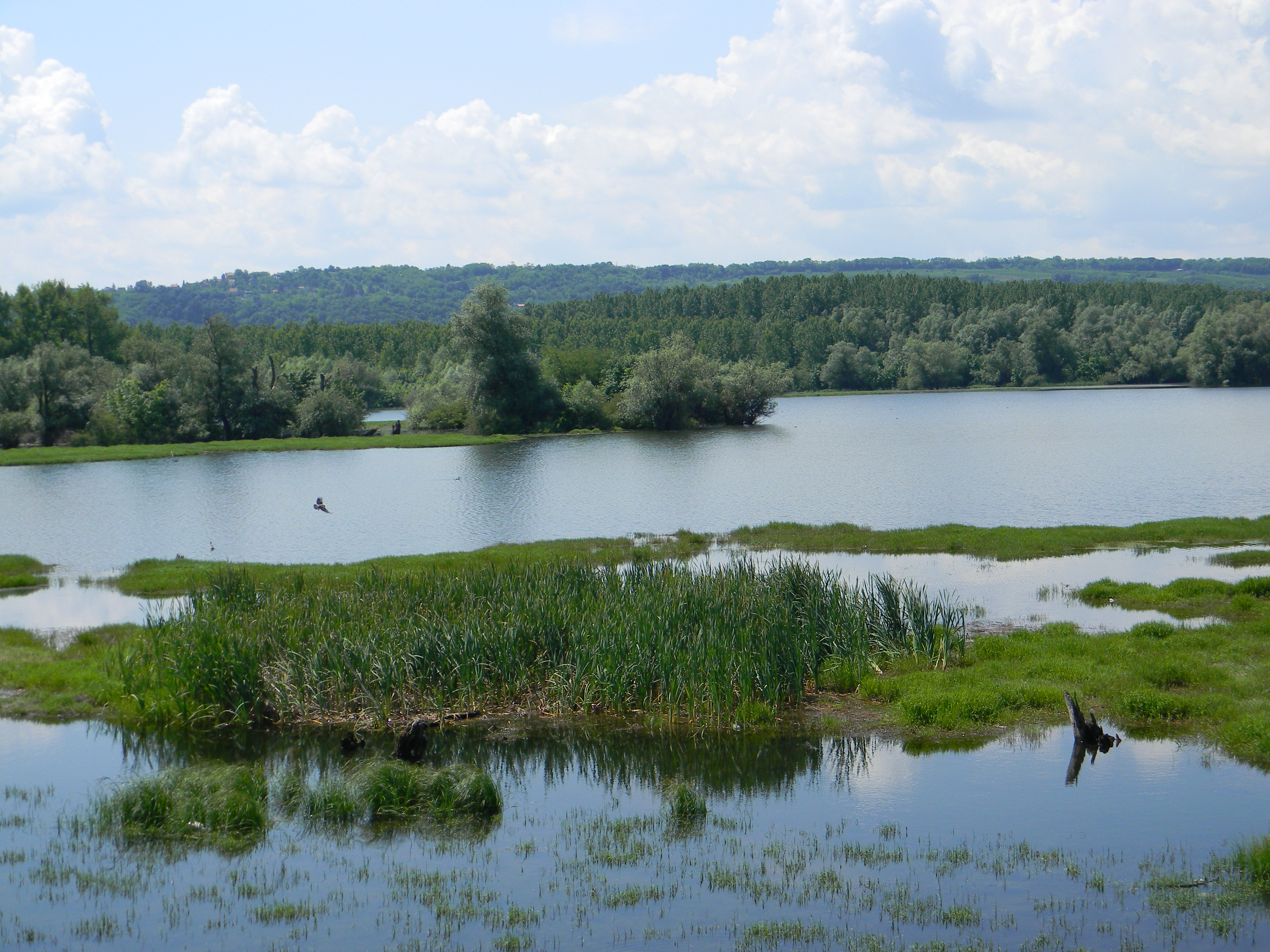 Provala (Hungarian-Szakado) - Danube wenth thru old dam (before new were made litle bit further from pld one) and made natural habitat and for many years excellent place for picnic. Today this is protected area. On picture is old road to picnic area